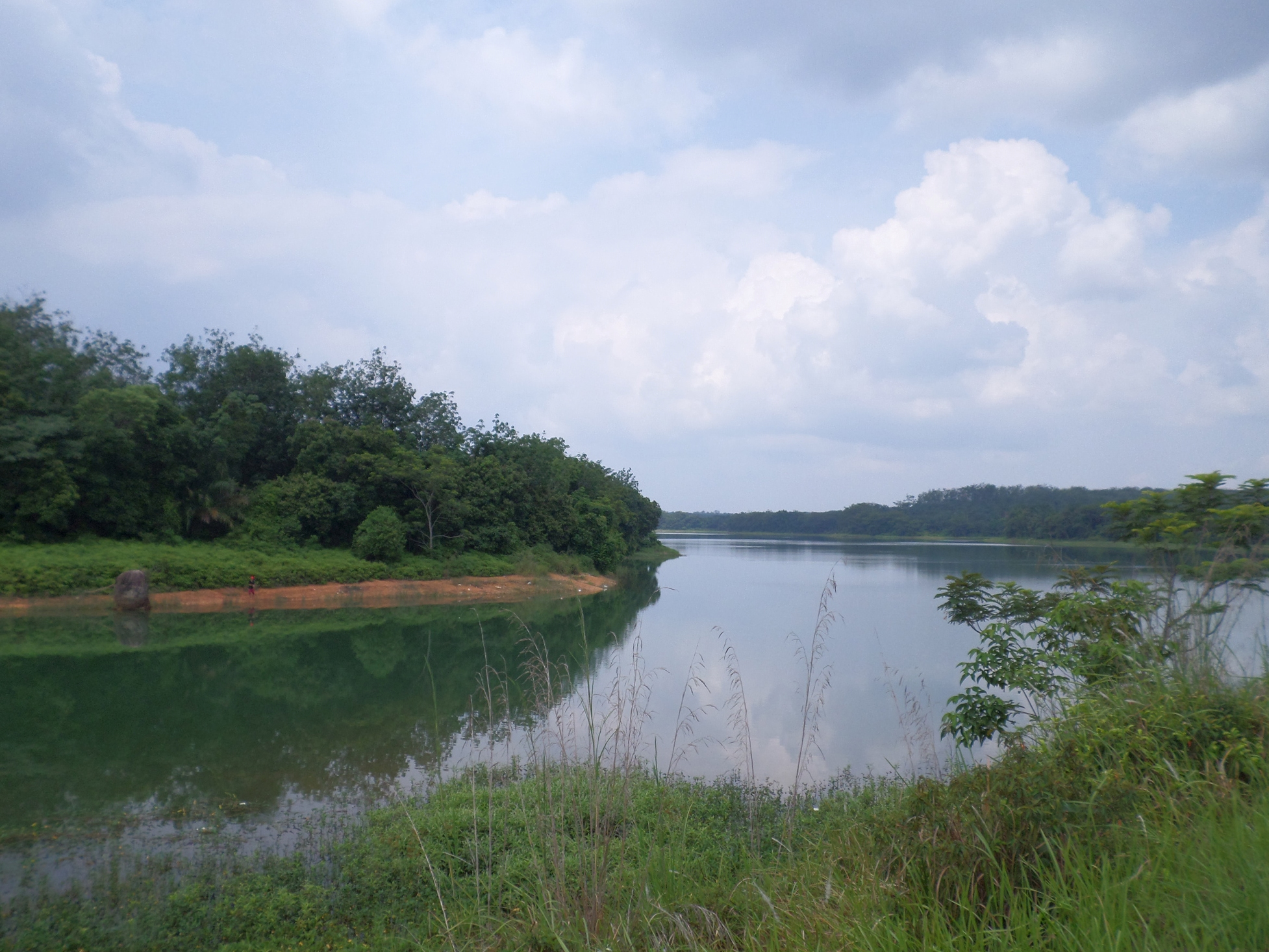 Durian Tunggal Reservoir, Alor Gajah, Melaka, MalaysiaBahasa Melayu: Takungan Durian Tunggal, Alor Gajah, Melaka, Malaysia